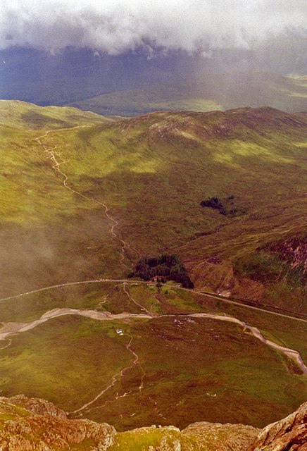 View from Stob Dearg, near to Altnafeadh, Highland, Great Britain. Looking down to Altnafeadh on the A82 Glen Coe road. The Devil's Staircase winding up the other side of the valley.